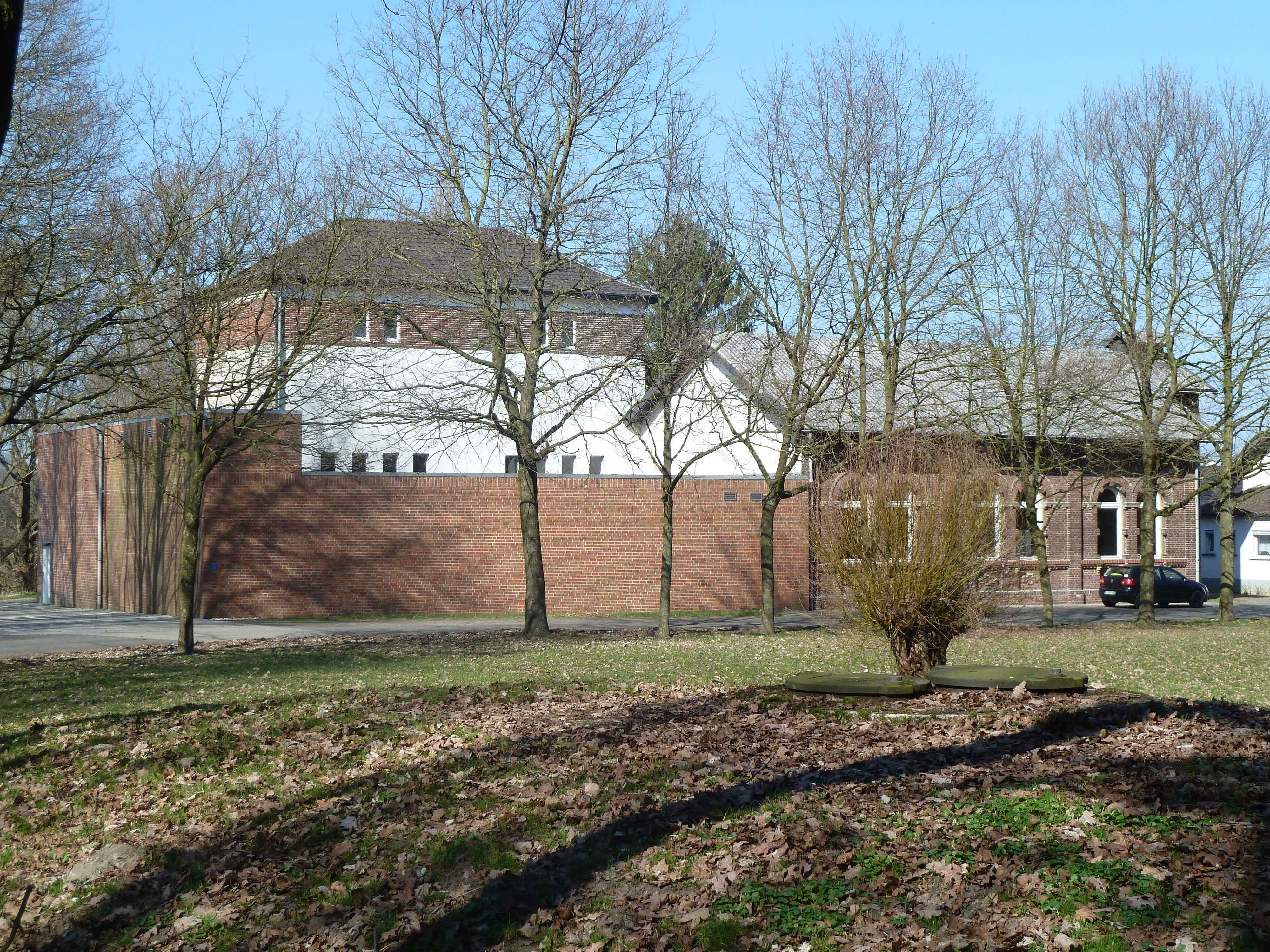 Water Works in Eikeloh (Germany)